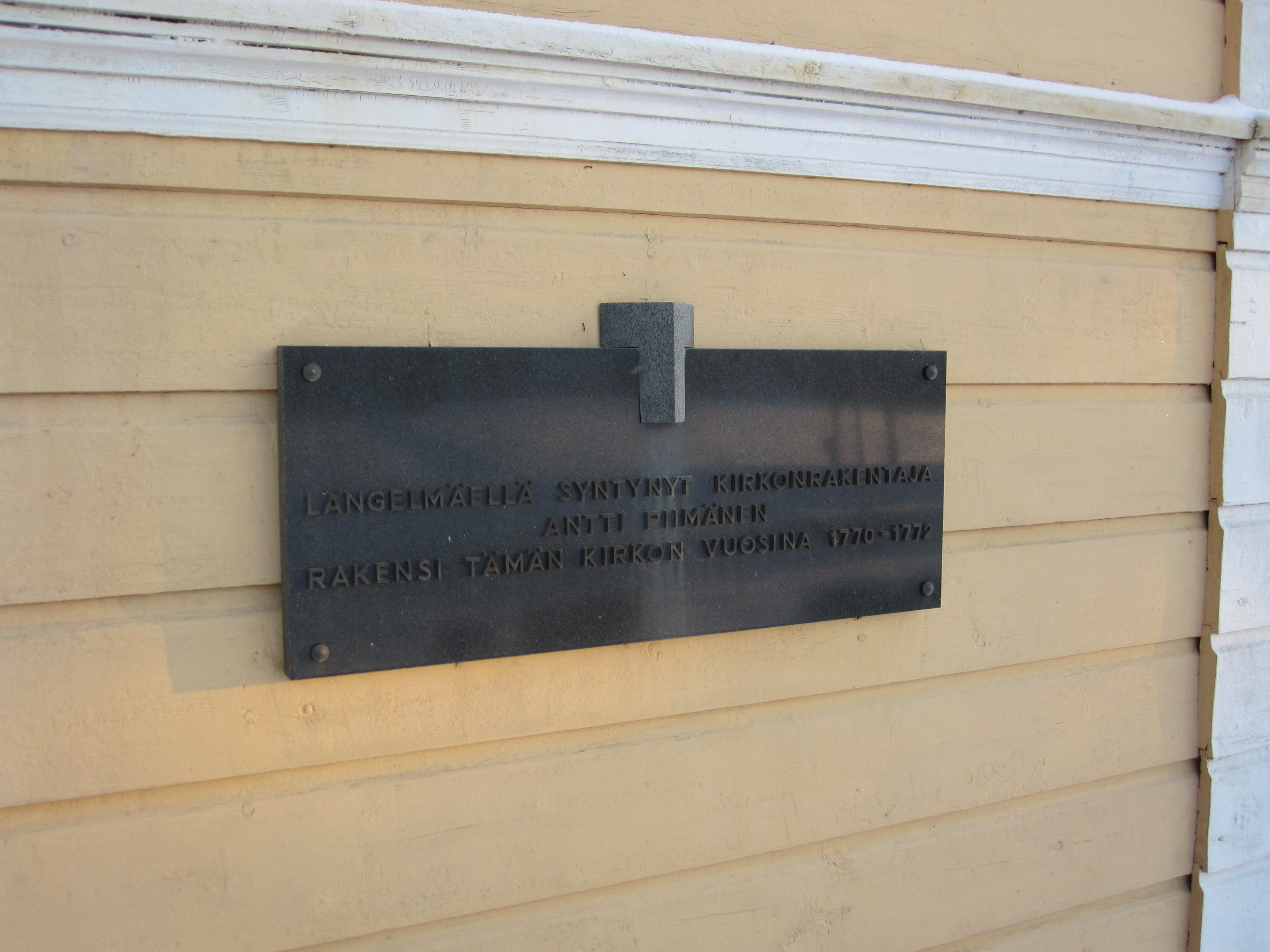 Plaque at Längelmäki Church in Orivesi, Finland, translated: Churchbuilder Antti Piimänen, born at Längelmäki, built this church in 1770–1772